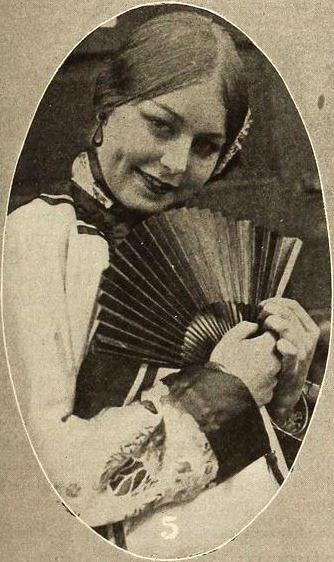 Still from the American film The Highbinders (1915) with Seena Owen as Ah Woo, from page 11 of the April 10, 1915 Reel Life magazine.